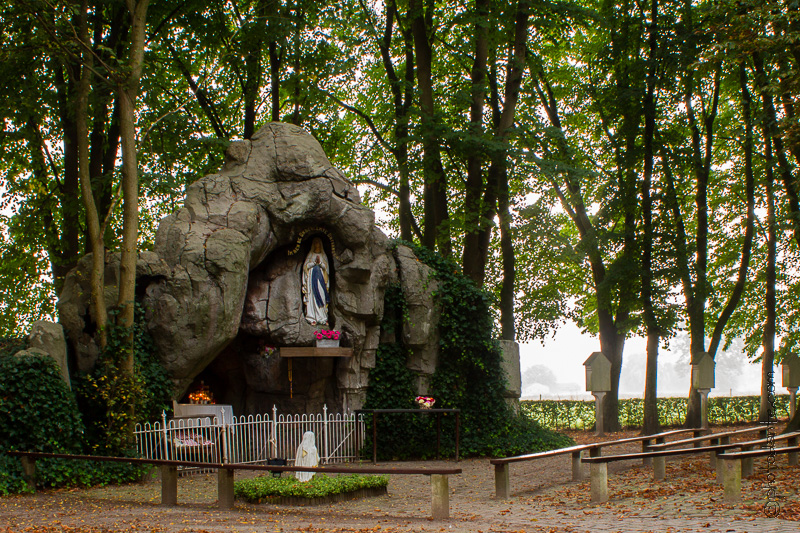 Baarle-Nijhoven is een buurtschap bij Baarle-Nassau